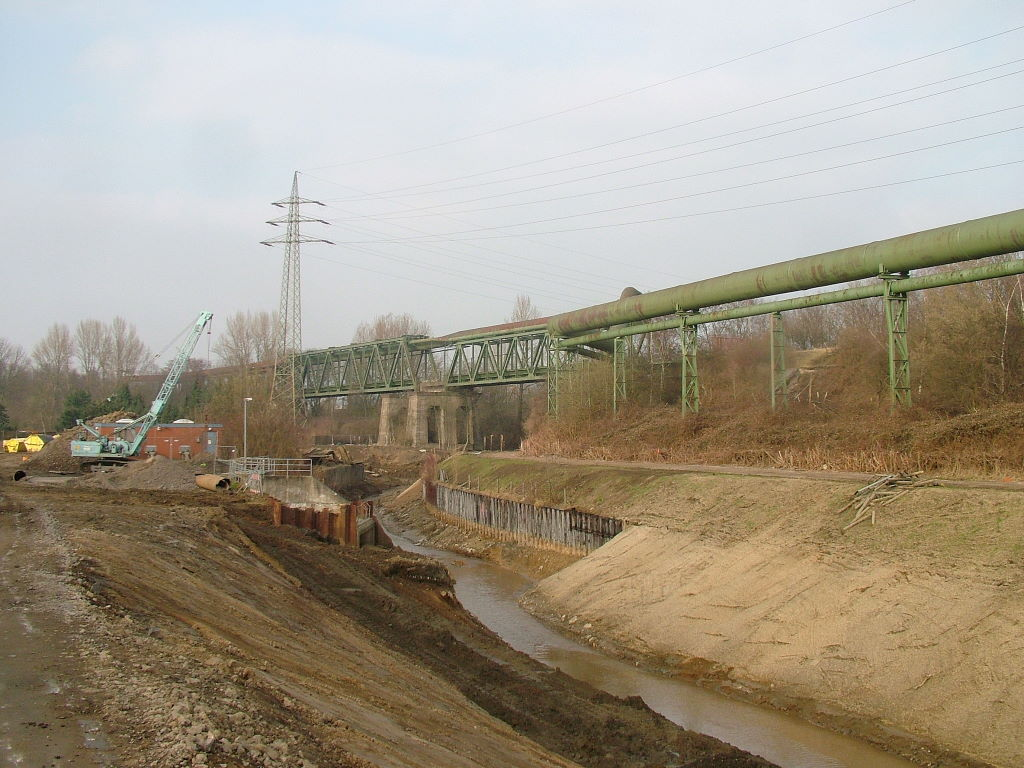 The "Hansabrückenzug" in Dortmund-Huckarde, a railway bridge also carrying a (former) furnace gas pipeline, in the foreground work has begun on the renaturalisation of the Emscher